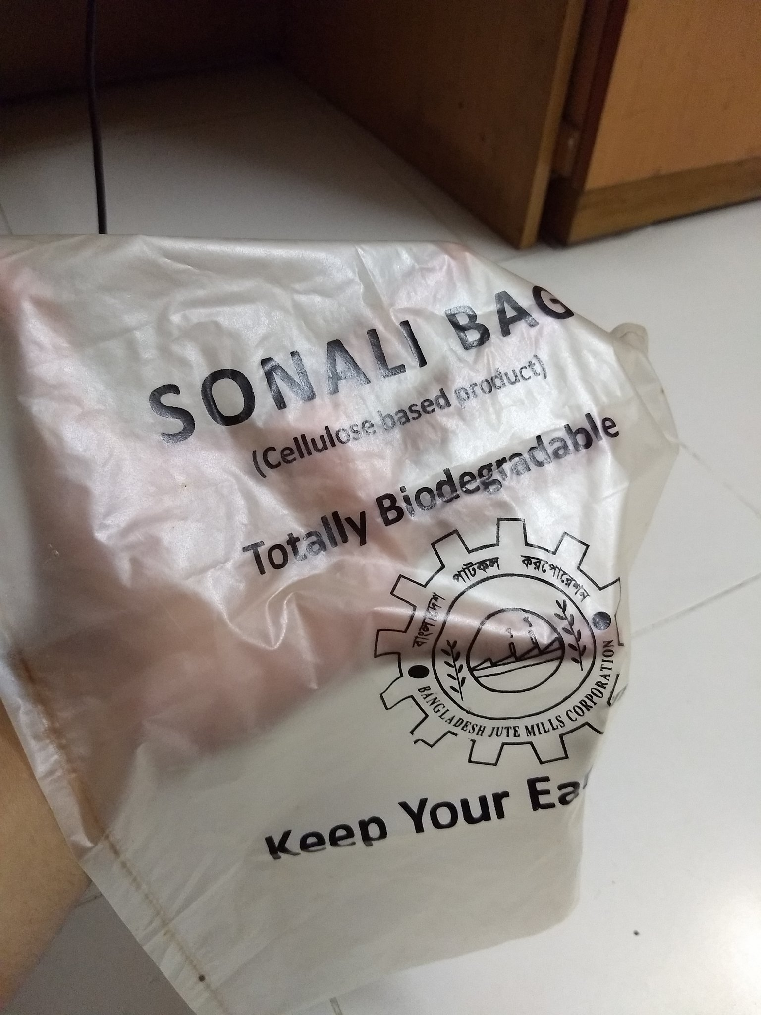 Sonali Bag is a biodegradable bioplastic bag which is alternative of plastic bag developed in Bangladesh.